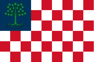 The flag represents the Elm Tree in a blue canon representing the public school district and the alternating red and white represent the tallest structure, the water tower.